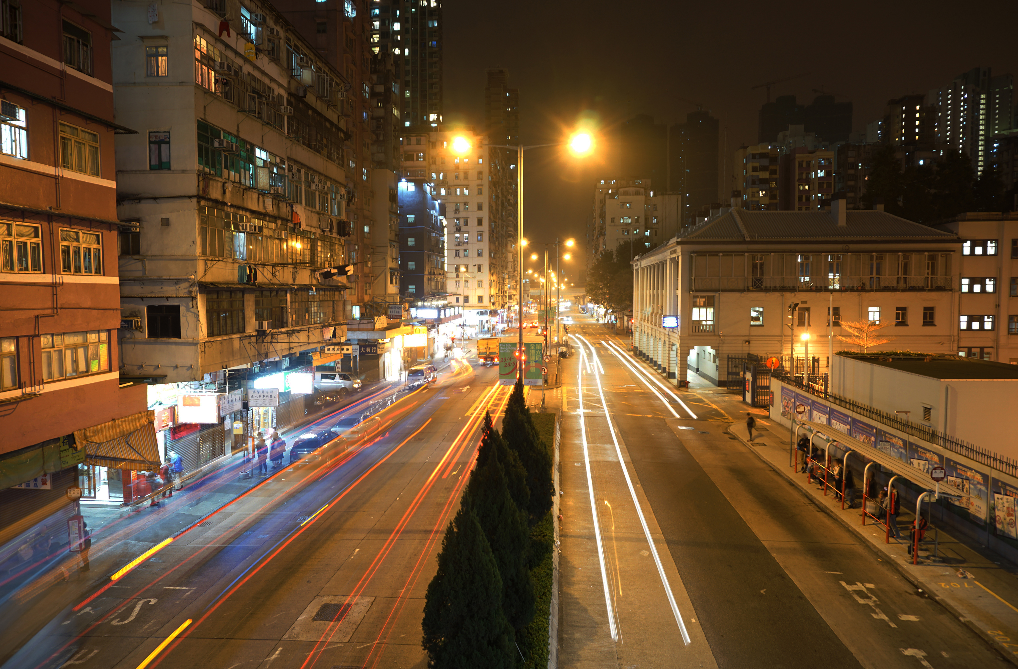 Yen Chow Street in Sham Shui Po, Hong Kong.